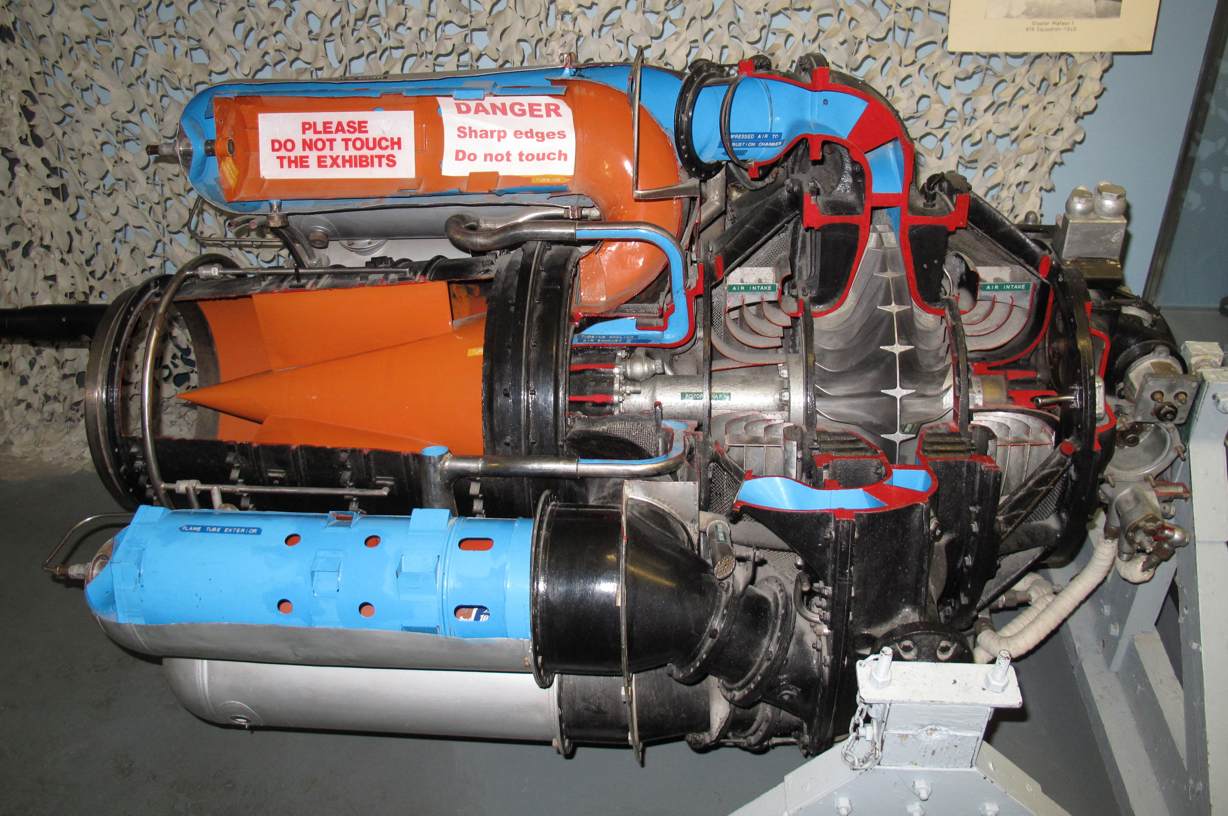 Photo of a Rolls-Royce Welland with sections cut away